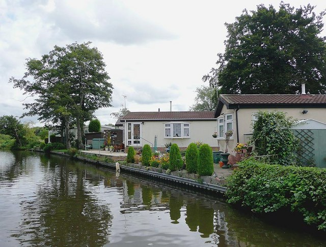 Housing by the canal at Penkridge, Staffordshire Smartly maintained low cost prefabricated housing in Little Marsh Grove by the Staffordshire and Worcestershire Canal.